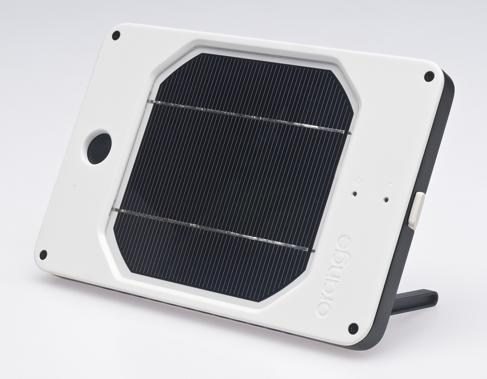 JOOS Orange solar charger, Version 1